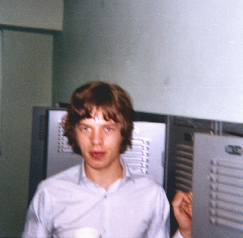 Mick Jagger, Statesboro, Georgia, May 4, 1965